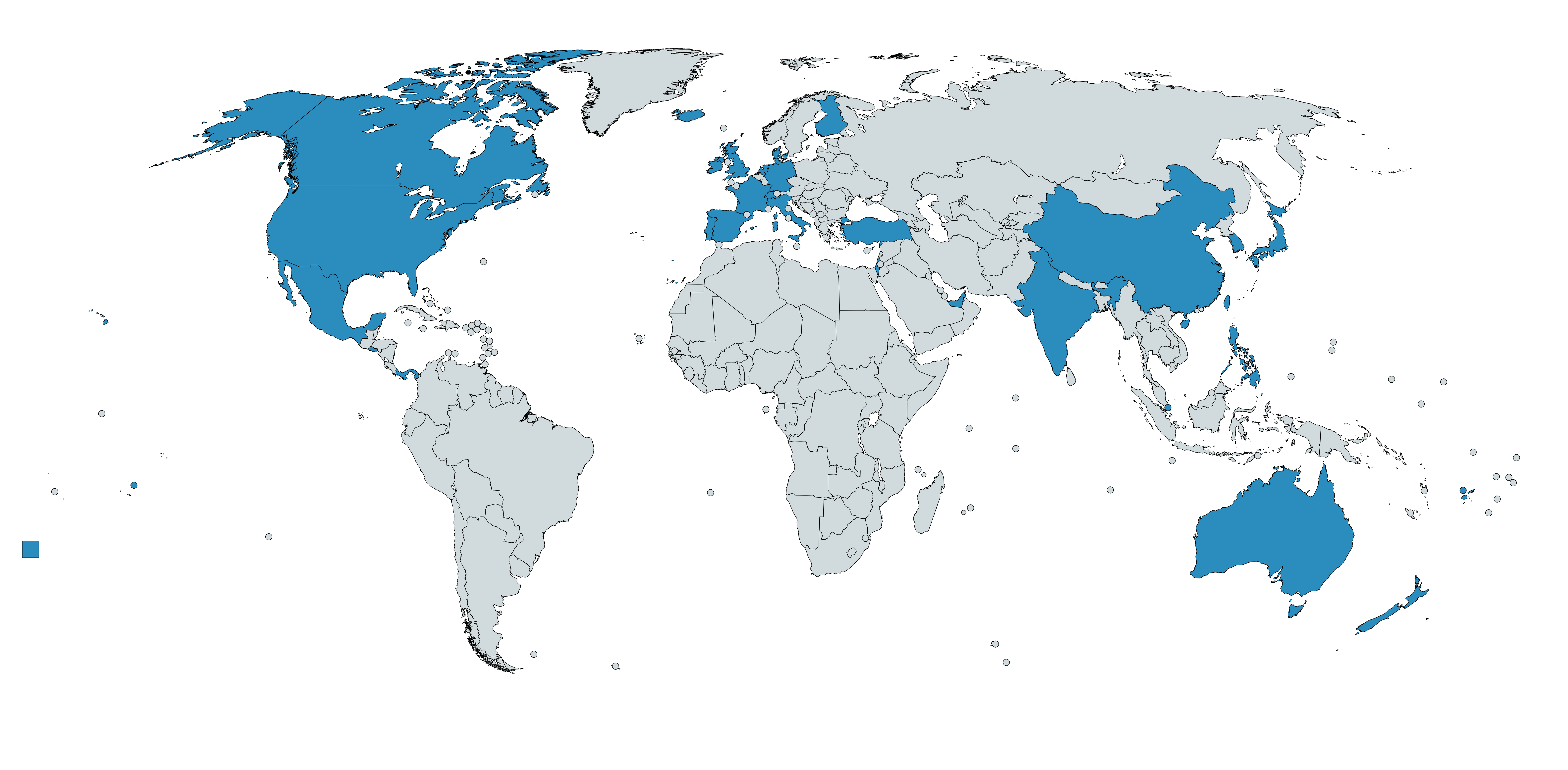 San Francisco International Airport passenger destinations